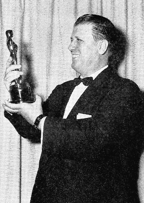 Photo of George Stevens with his Best Director Oscar for the film Giant.